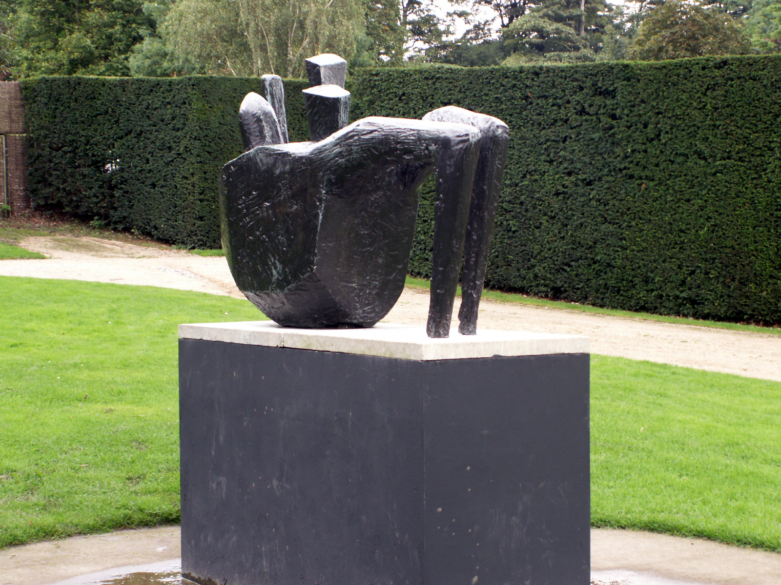 Yorkshire-Sculpture-Park, Kenneth Armitage, Figure on its Back, 1960